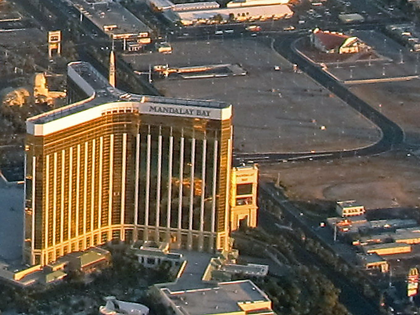 The Las Vegas Strip is an approximately 4.2-mile (6.8 km) stretch of Las Vegas Boulevard South in Clark County, Nevada. The Strip is not located within the City of Las Vegas but it passes through the unincorporated towns of Paradise and Winchester, which are south of the Las Vegas city limits. Most of the Strip has been designated an All-American Road. Many of the largest hotel, casino and resort properties in the world are located on the Las Vegas Strip. Fifteen of the world's 25 largest hotels by room count are on the Strip, with a total of over 62,000 rooms. One of the most visible aspects of Las Vegas' cityscape is its use of dramatic architecture. The modernization of hotels, casinos, restaurants, and residential high-rises on the Strip has established the city as one of the most popular destinations for tourists. Las Vegas Strip Wikipedia:Text of Creative Commons Attribution-ShareAlike 3.0 Unported License This is a retouched picture, which means that it has been digitally altered from its original version. Modifications: Drehung und Verzerrung korrigiert, Crop, Farbe und Kontrast optimiert. The original can be viewed here: Las Vegas Strip, Flight Between Las Vegas, Nevada and Orange County, California (6575718599).jpg. Modifications made by Lämpel.